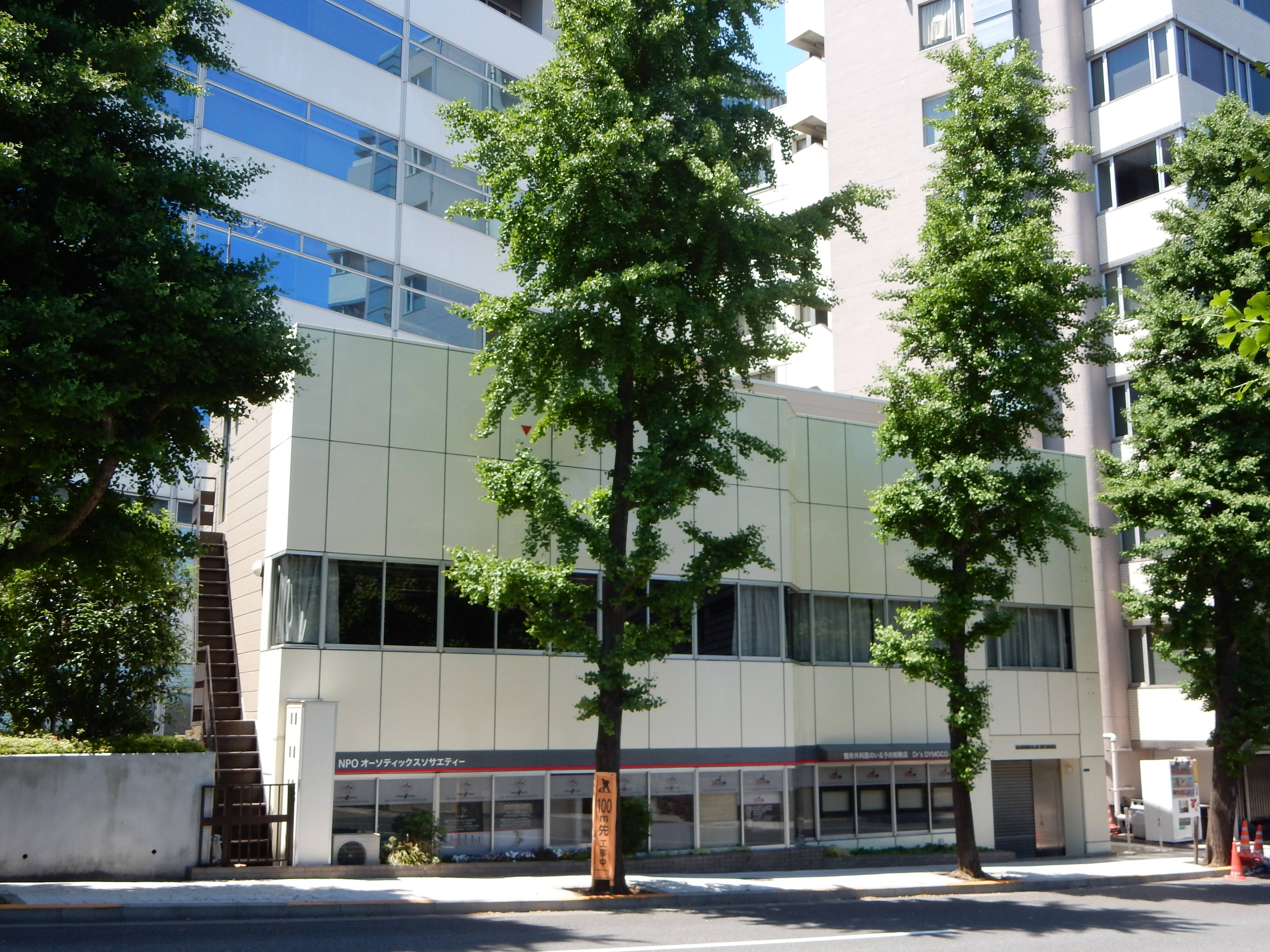 Nagatacho Palace Side Building (永田町パレスサイドビル), located at 1-11-4 Nagatacho, Chiyoda, Tokyo, Japan